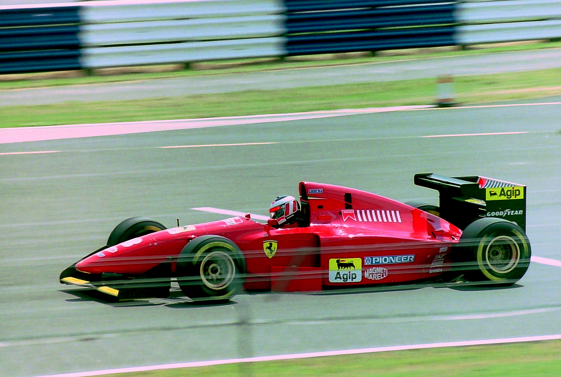 Gerhard Berger - Ferrari 412T1B at the 1994 British Grand Prix